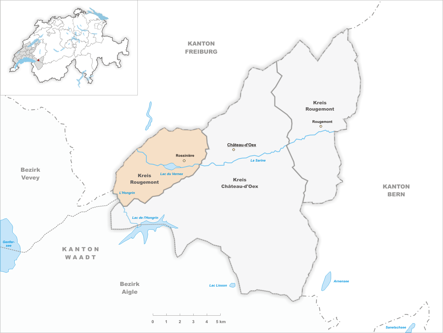 Municipality Rossinière